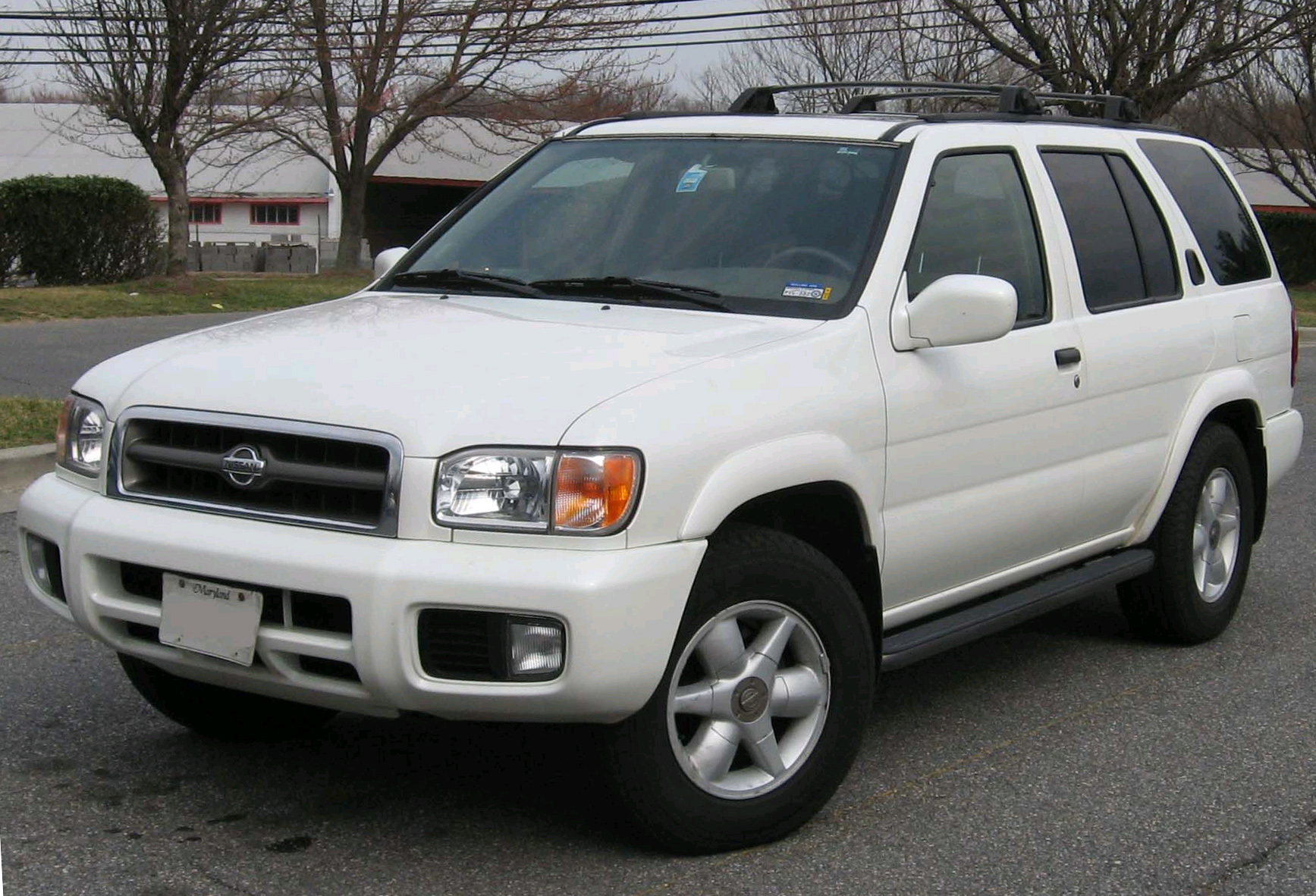 2002 Nissan Pathfinder photographed in Fort Washington, Maryland, USA.